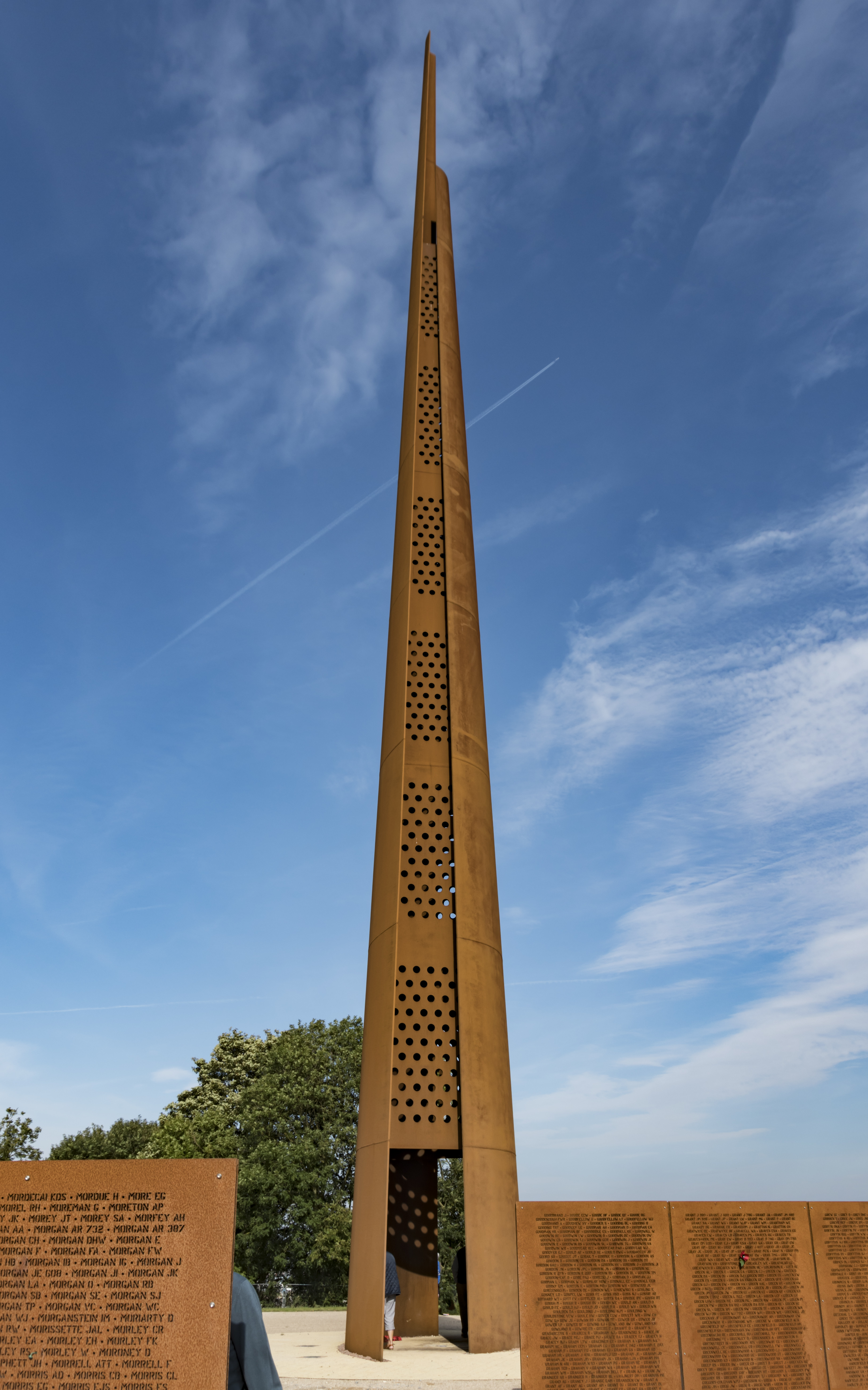 The UK’s tallest war memorial, it is 102ft high, the wingspan of the Avro Lancaster bomber. It is made from Corten weathering steel and commands stunning views across Lincoln to the Cathedral.